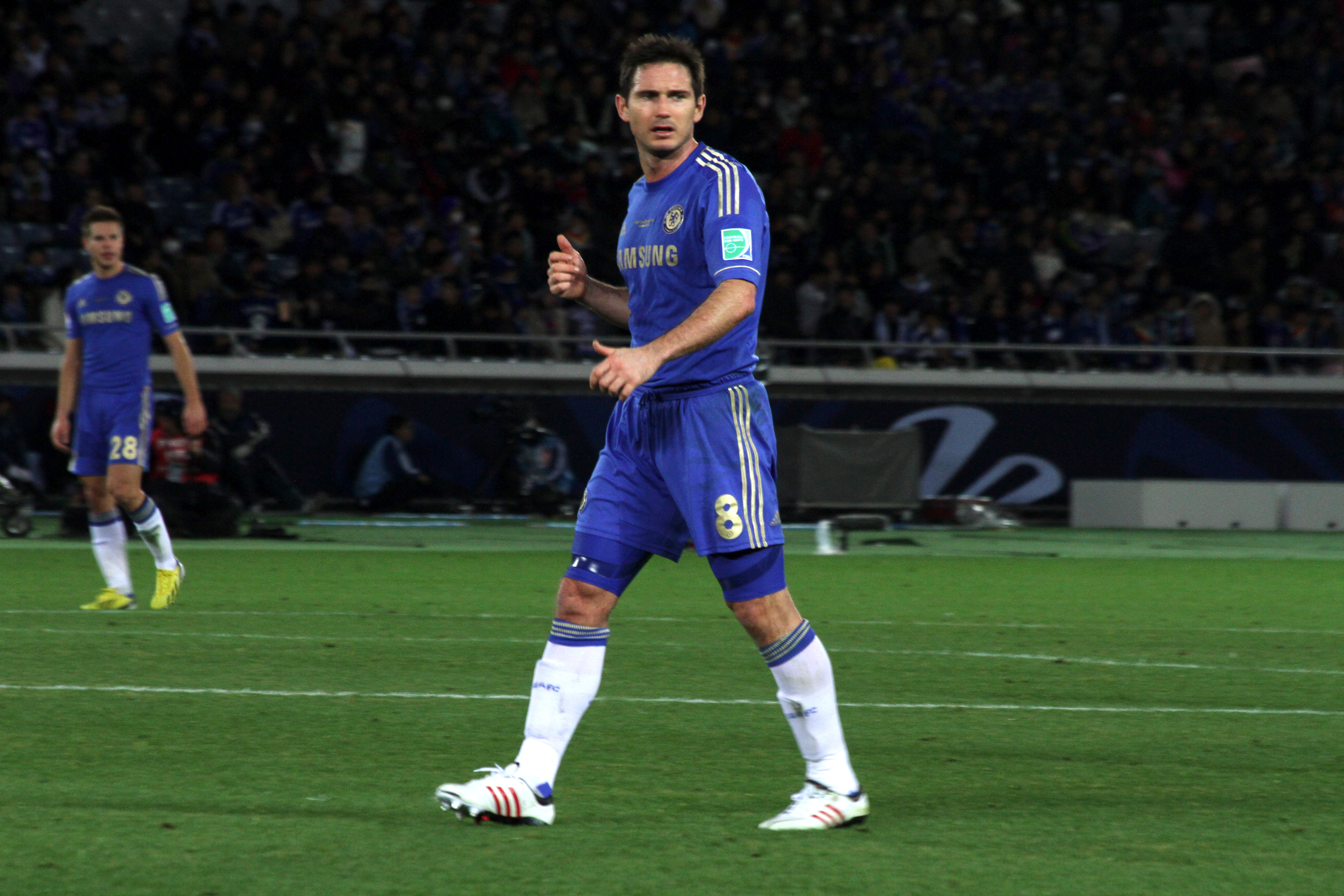 Frank Lampard of Chelsea